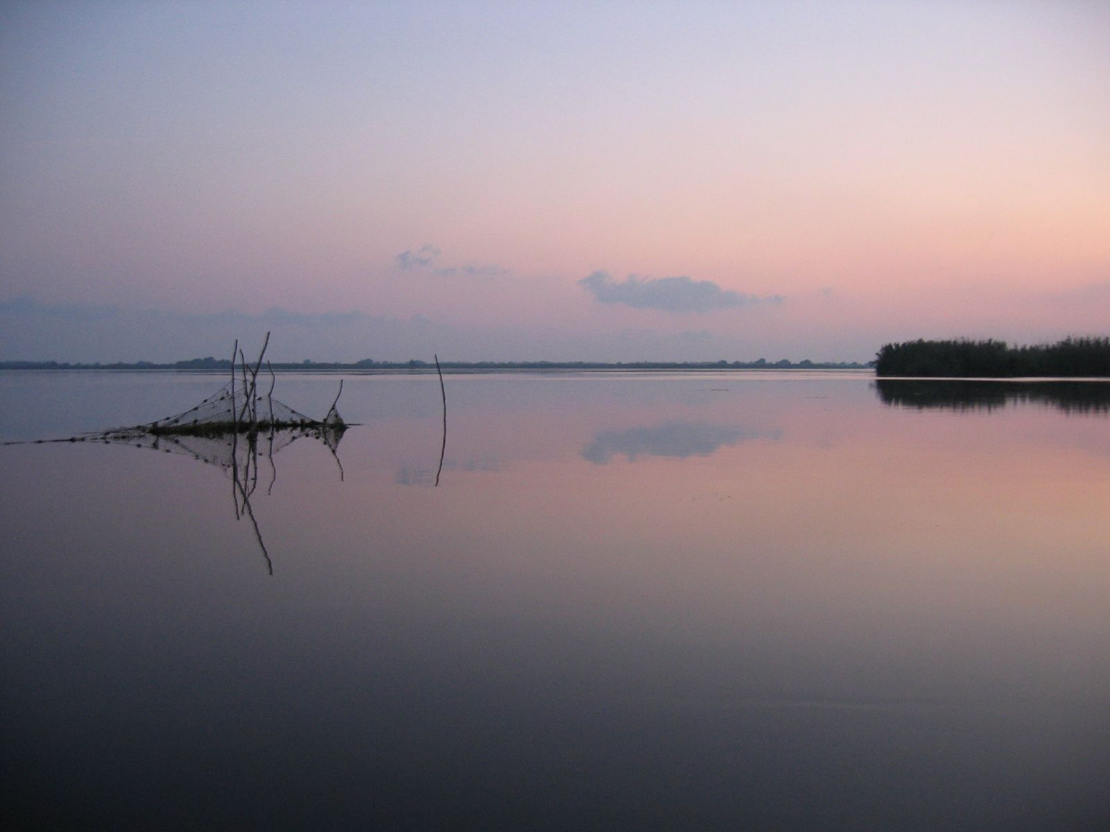 Sulina arm of the Danube Delta, Romania